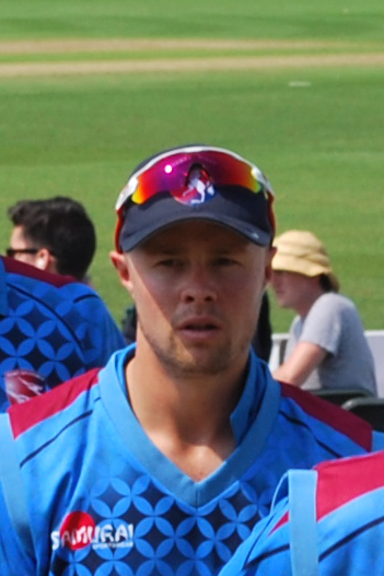 Fabian Cowdrey at Kent County Cricket Ground, Beckenham - June 2016